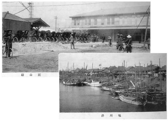 Okayama station and the bank of Asahi river near from its mouth.